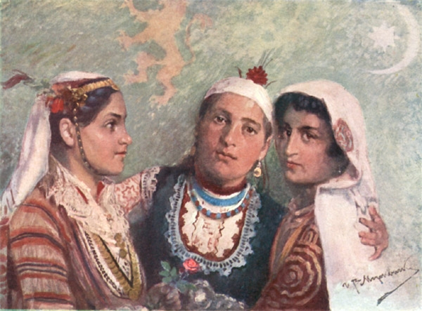 Three sisters - allegory of bulgarian unity Moesia, Thrace and Macedonia